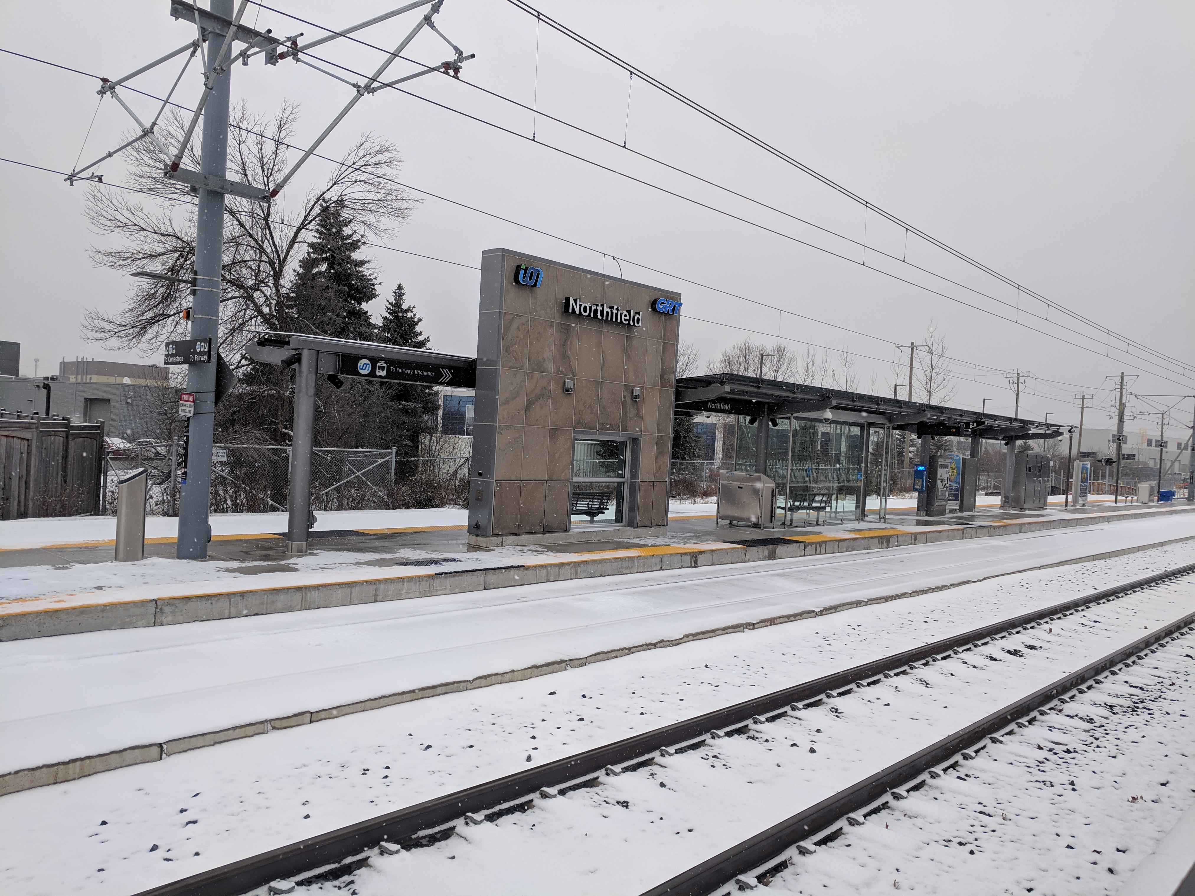 Northfield Station of the Ion rapid transit system, photographed structurally complete December 2018